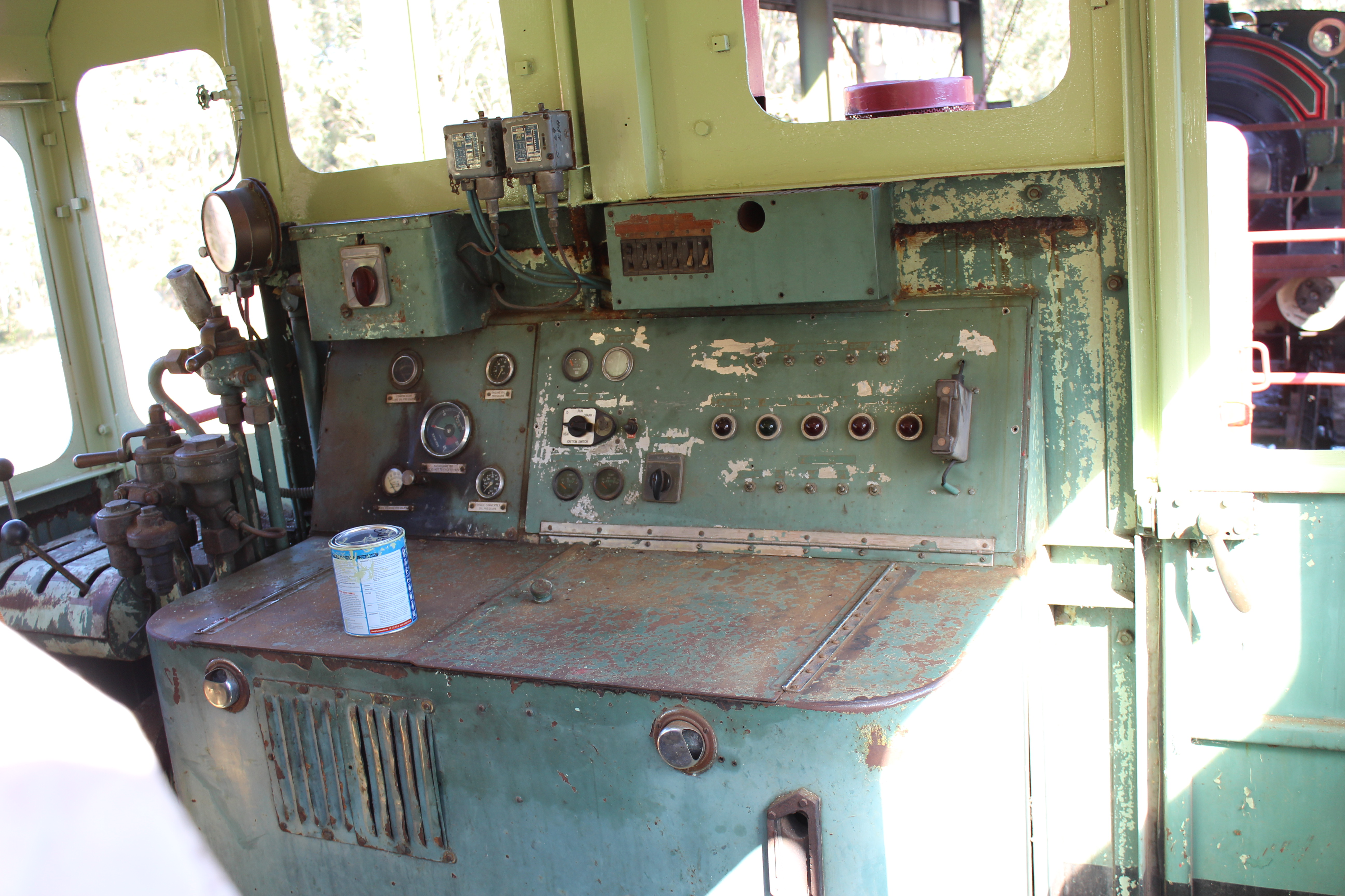 The cab of X217 undergoing restoration at the Richmond Vale Railway Museum